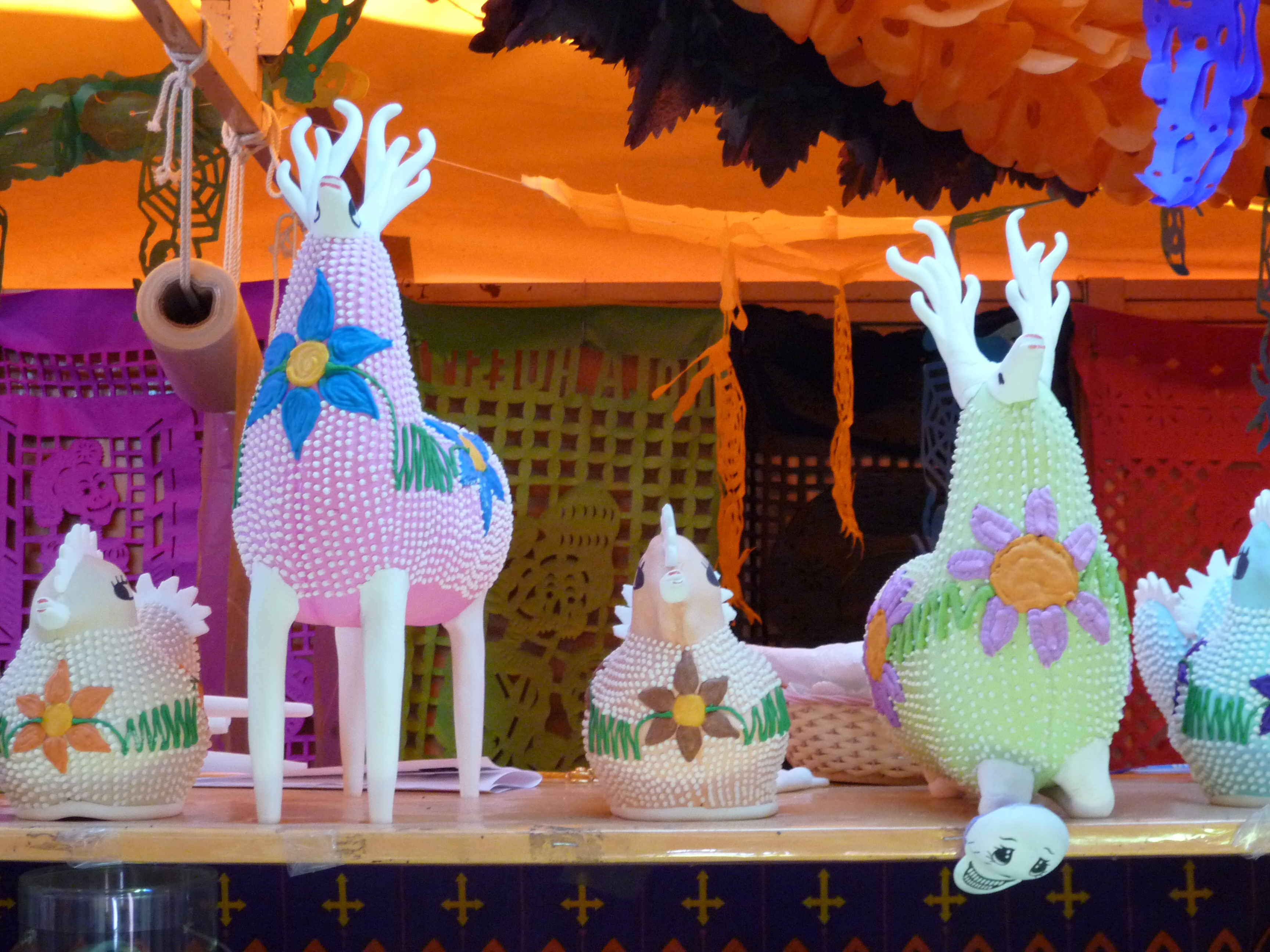 Sugar lambs